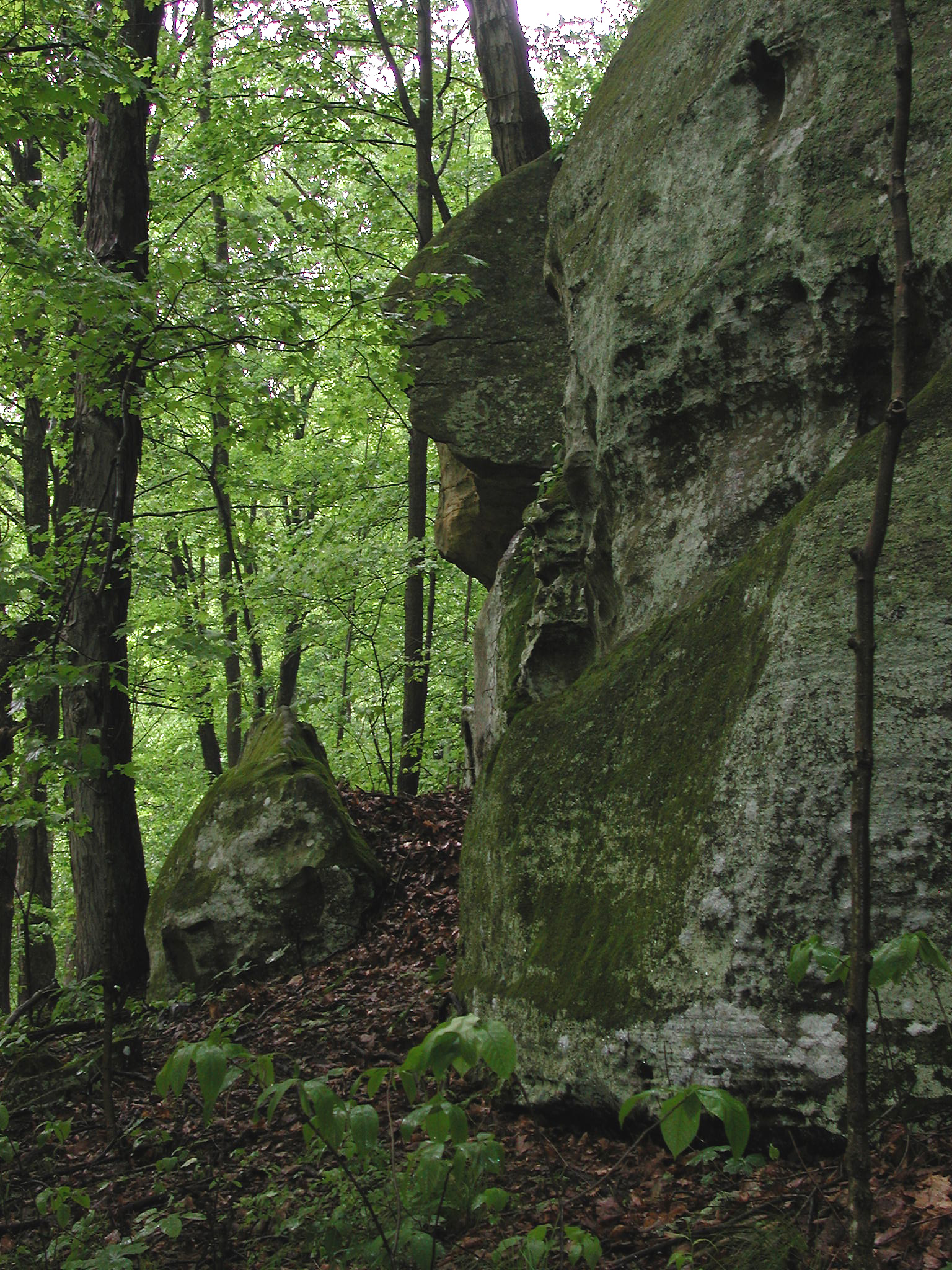 Rock formation on the Baker Tract, a preserve managed under a conservation easement by the Athens Conservancy